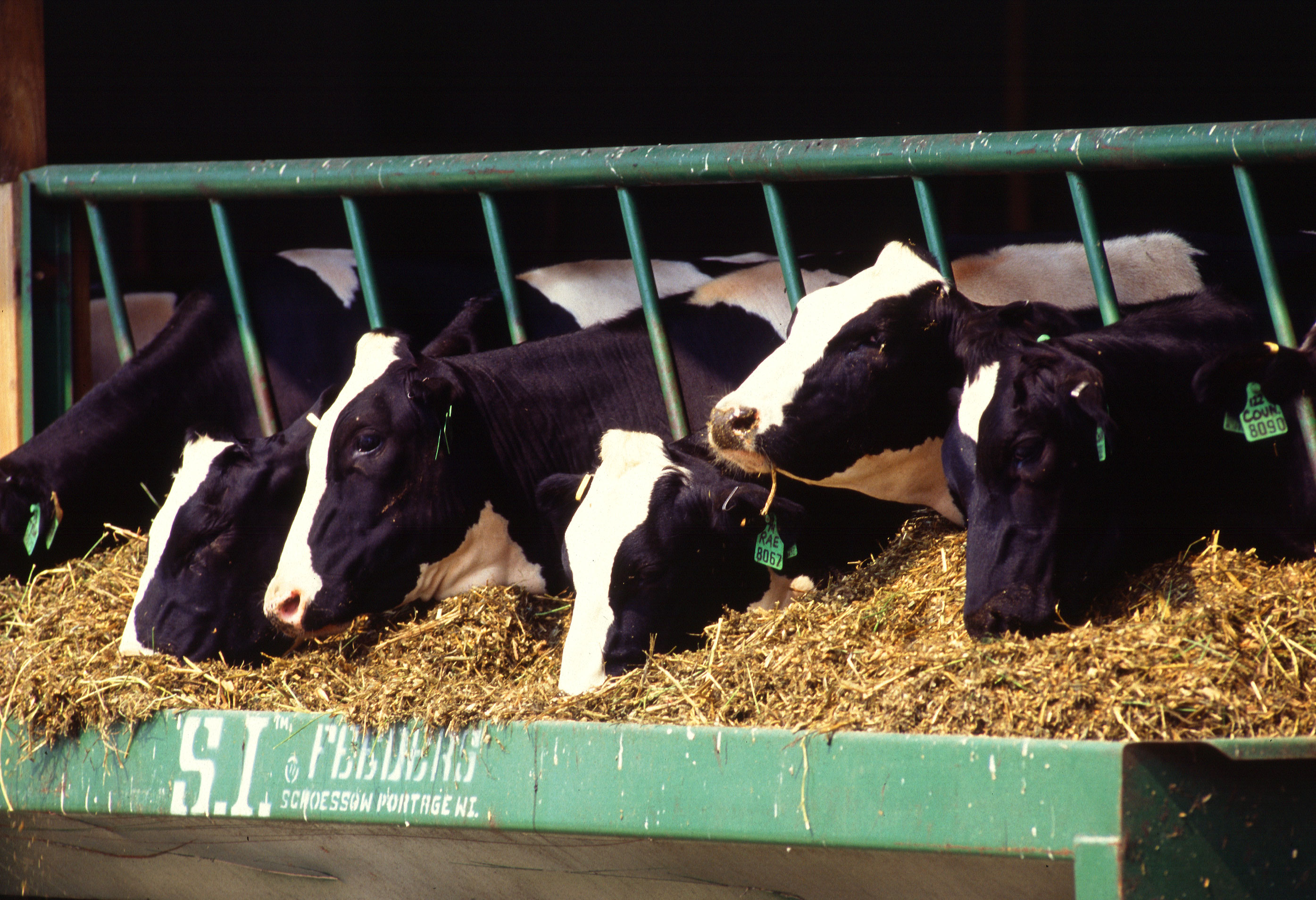 Holstein dairy cows from Holstein dairy cows thumbnail Image Number K7964-1 Holstein dairy cows. Photo by Scott Bauer.